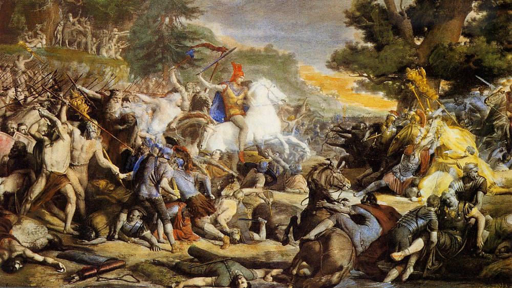 The Hermannsschlacht, colored reproduction of a monumental painting by Friedrich Gunkel in the Maximilianeum Munich, destroyed in WWII